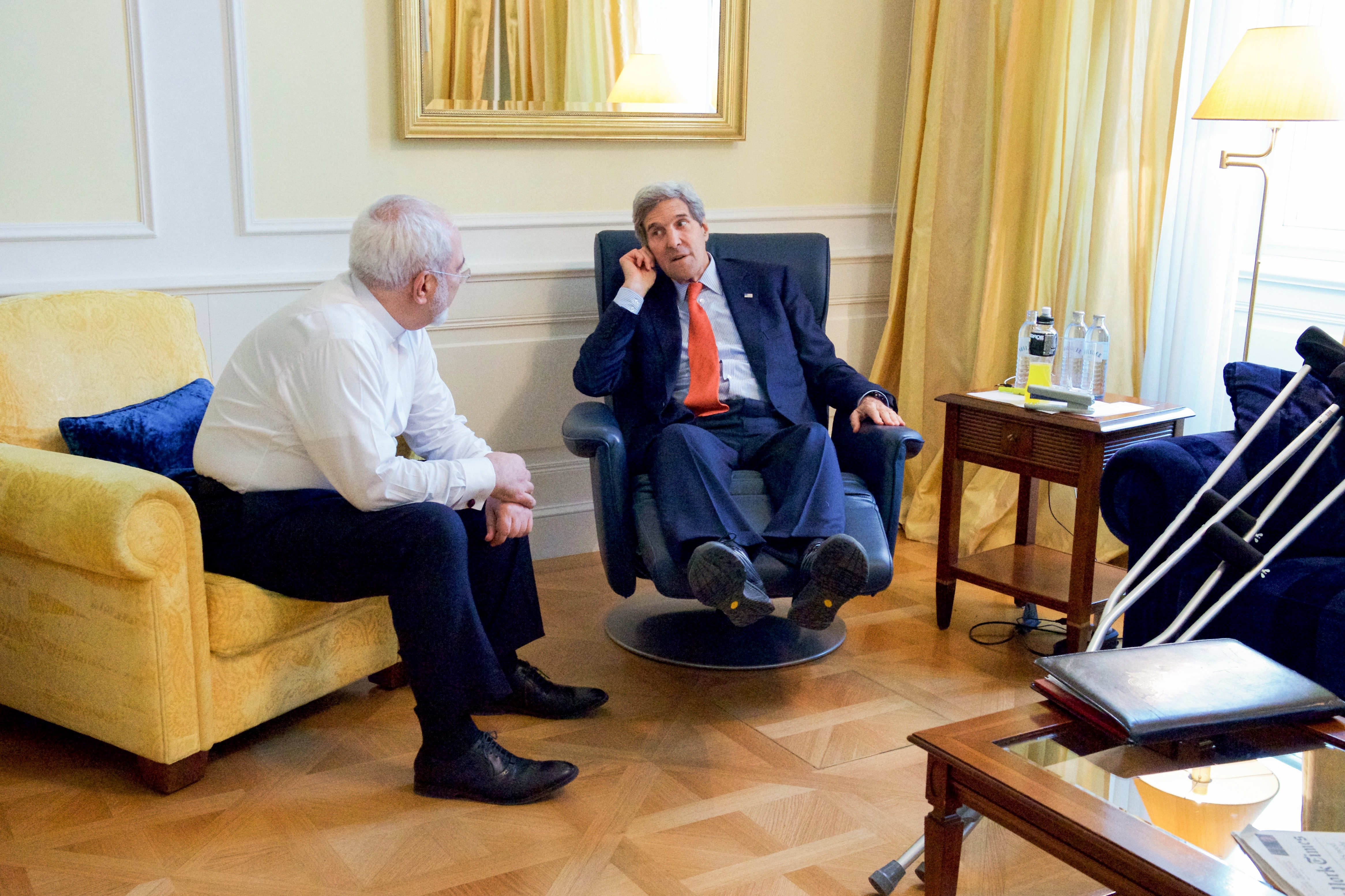 Secretary Kerry held one of his series of informal, one-on-one conversations with Iranian Foreign Minister Zarif in his hold room at the Palais Coburg on July 3, 2015. [State Department photo/ Public Domain]